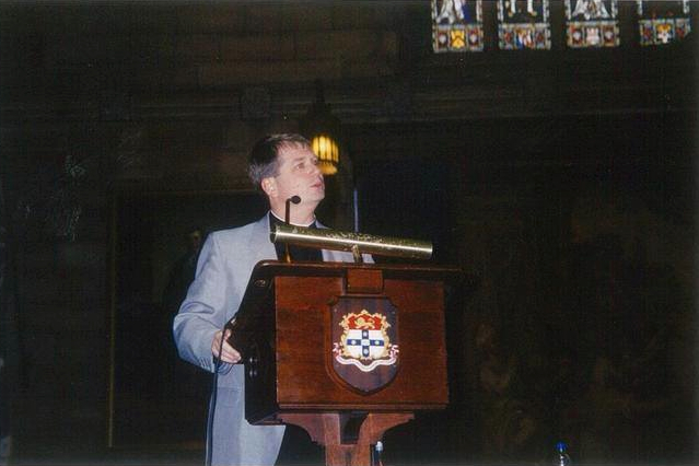 Bishop Anthony Fisher OP debating Dr Philip Nitschke on euthanasia, 12 August, 2003